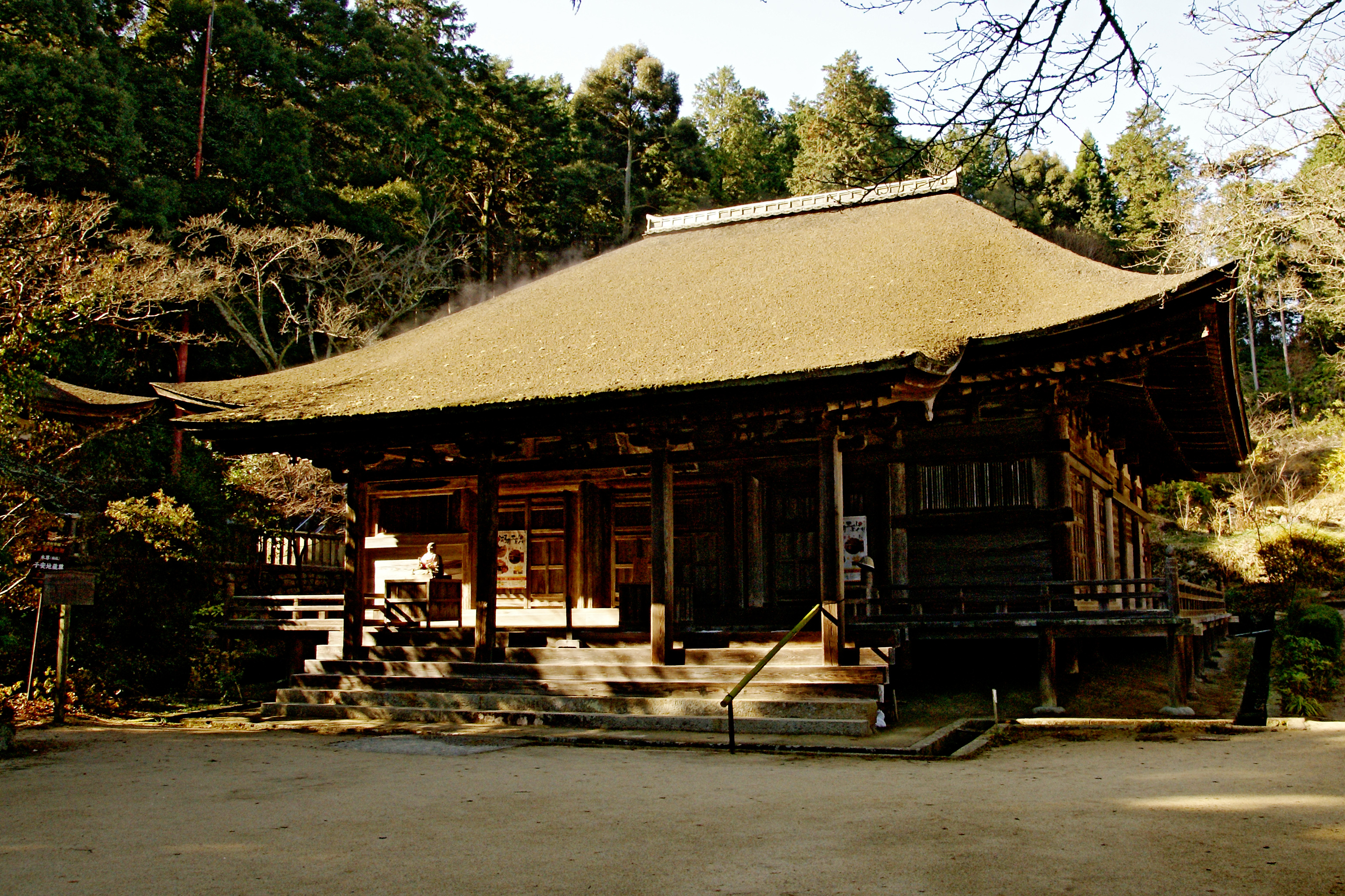 Chōju-ji Main Hall is a Japan's National Treasure in Konan, Shiga prefecture, Japan It was built at the Heian period (AD 794 to 1185).